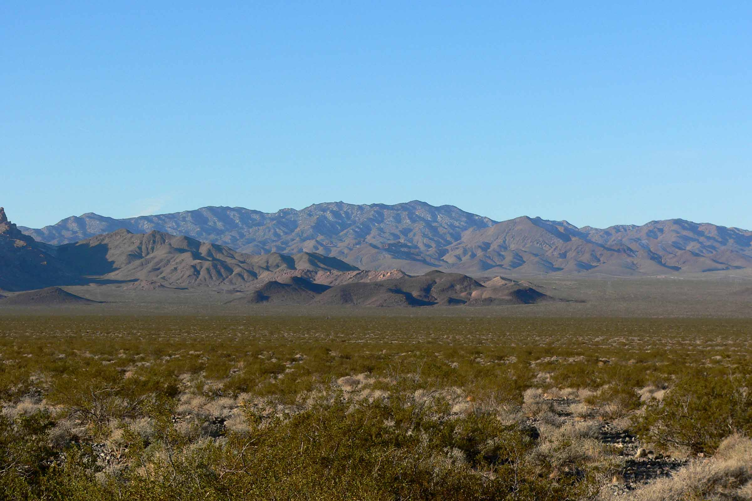 McCullough Mountain, in the McCullough Range from Eldorado Valley, southern Nevada, (looking mostly west).(North terminus of Highland Range (Clark County) visible at photo left.)